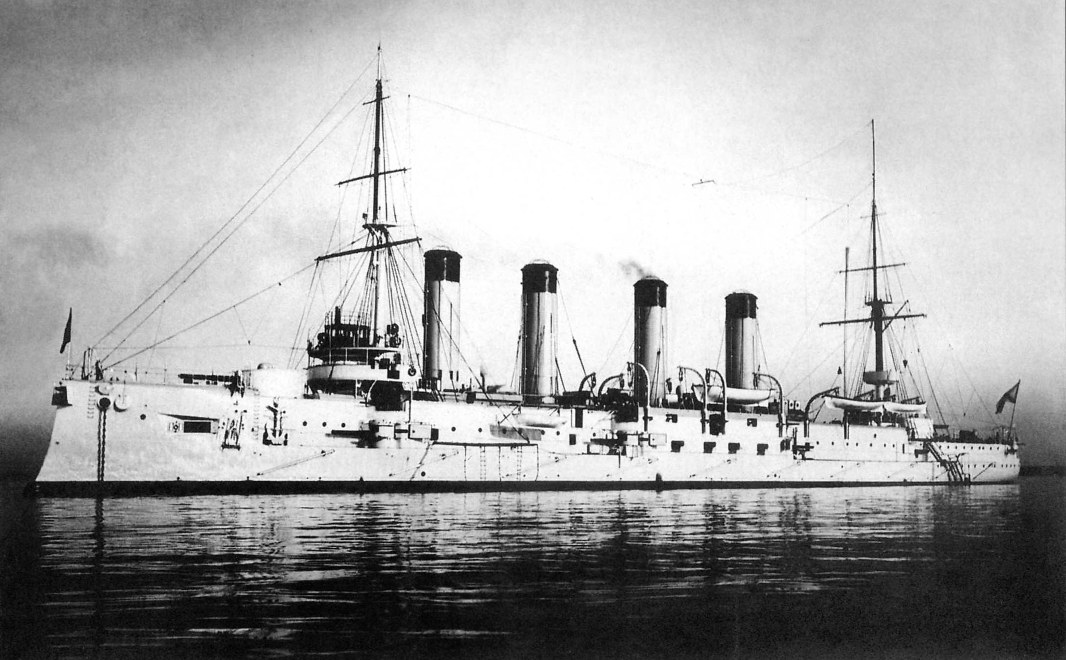 Imperial Russian armoured cruiser Bayan at Toulon at the beginning of 1903 year.